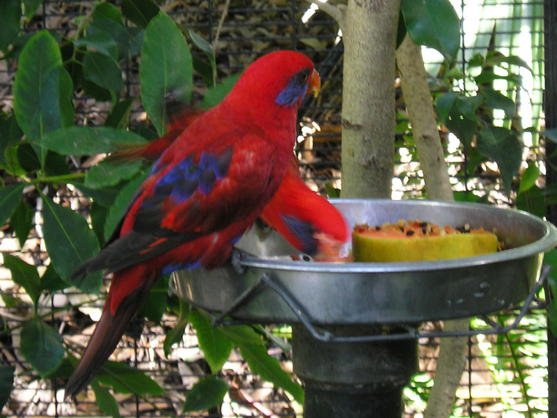 Blue-eared Lory (Eos semilarvata), also known as Ceram Lory, Half-masked Lory or Seram Lory, at the San Diego Zoo.